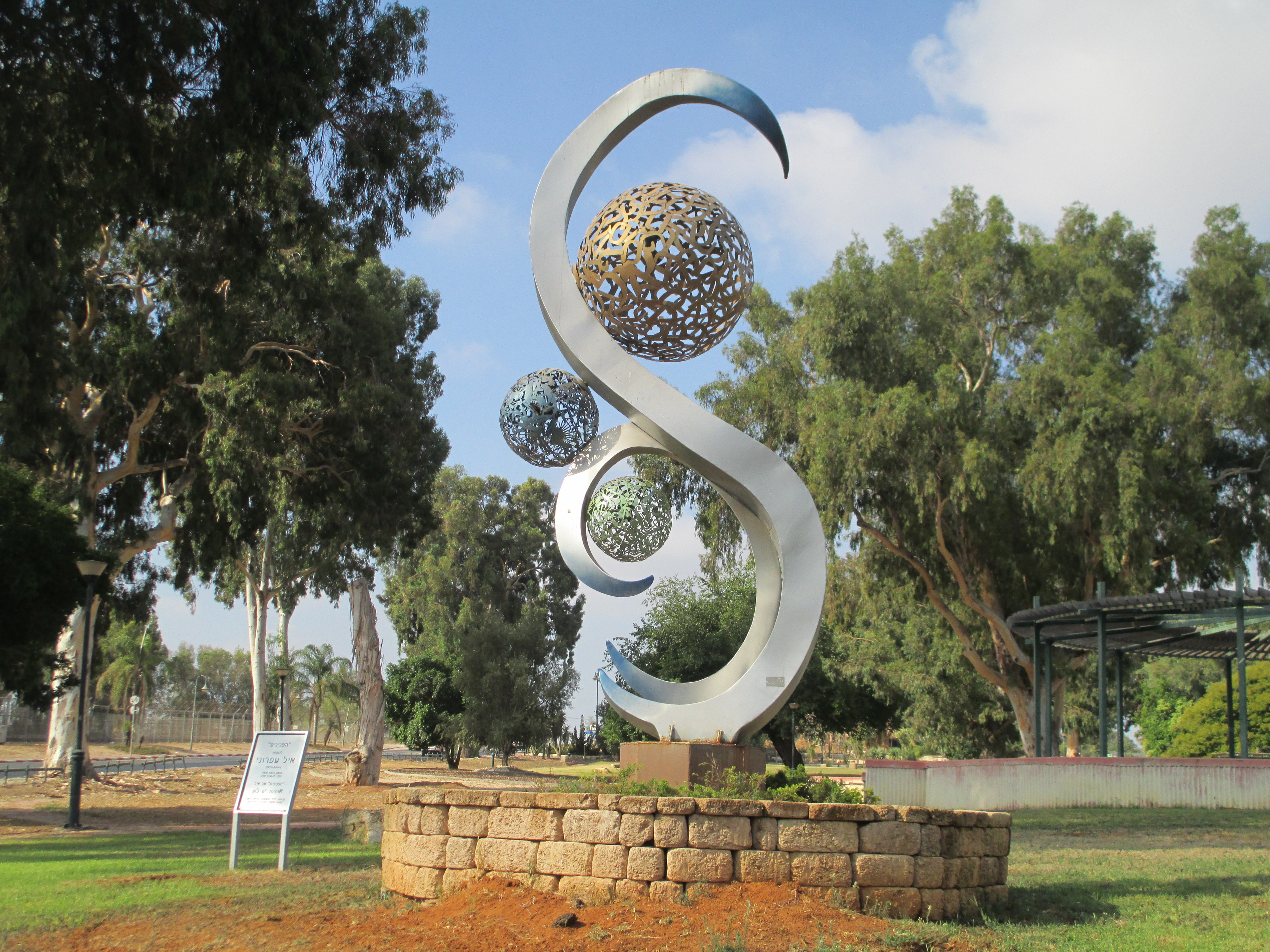 Pearls monument in Be'er Ya'akov